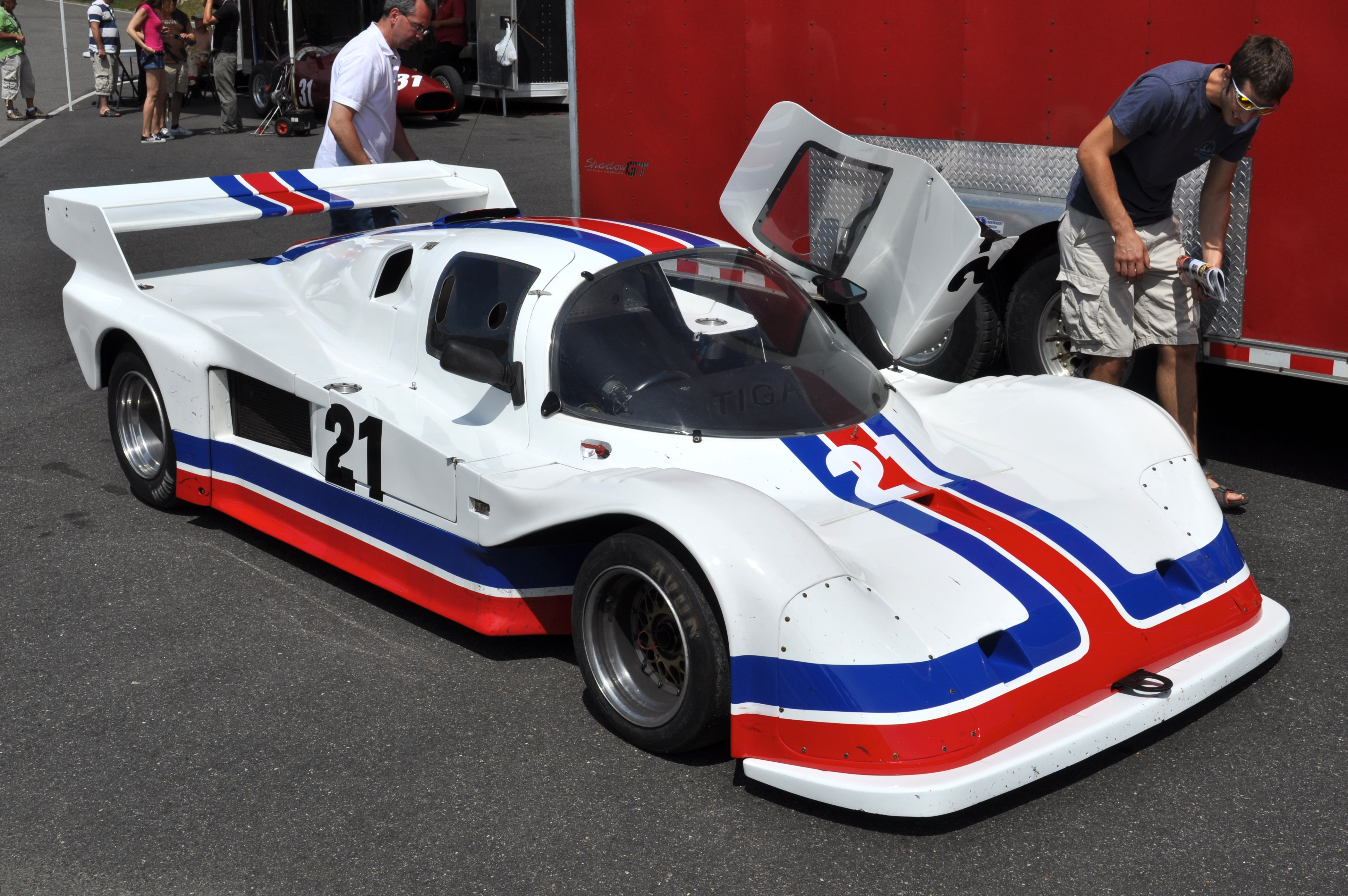 The Tiga GT285 IMSA GTP car of Denis Bigioni, in the paddock at Circuit Mont-Tremblant during the 2010 Legends of Motorsport meeting.